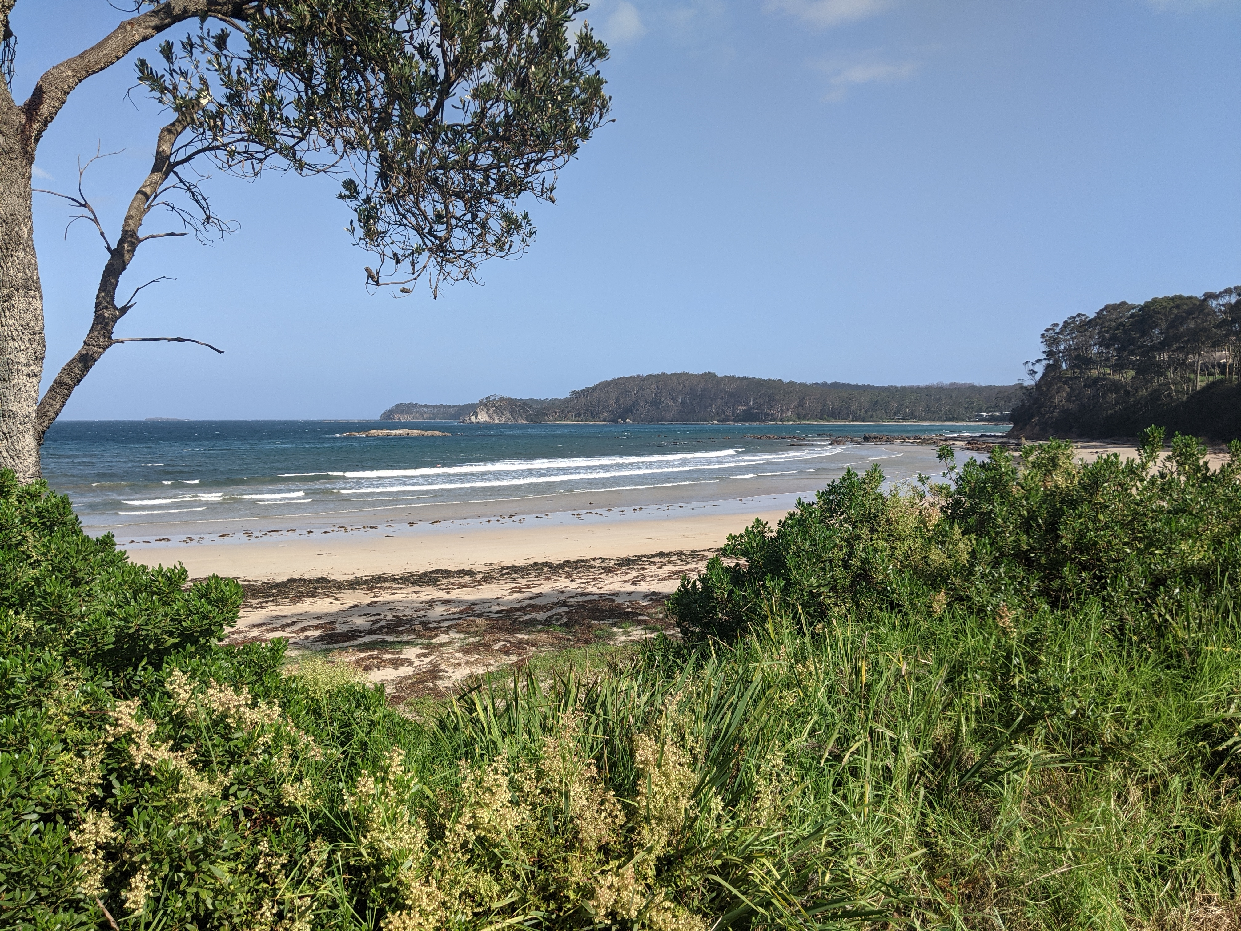 Denhams Beach, New South Wales, 2020